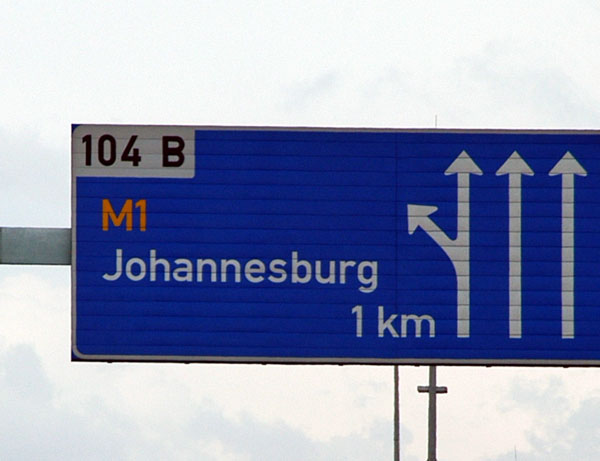 Photograph of the M1 in Johannesburg. Original source here. Released under GFDL by permission of author.